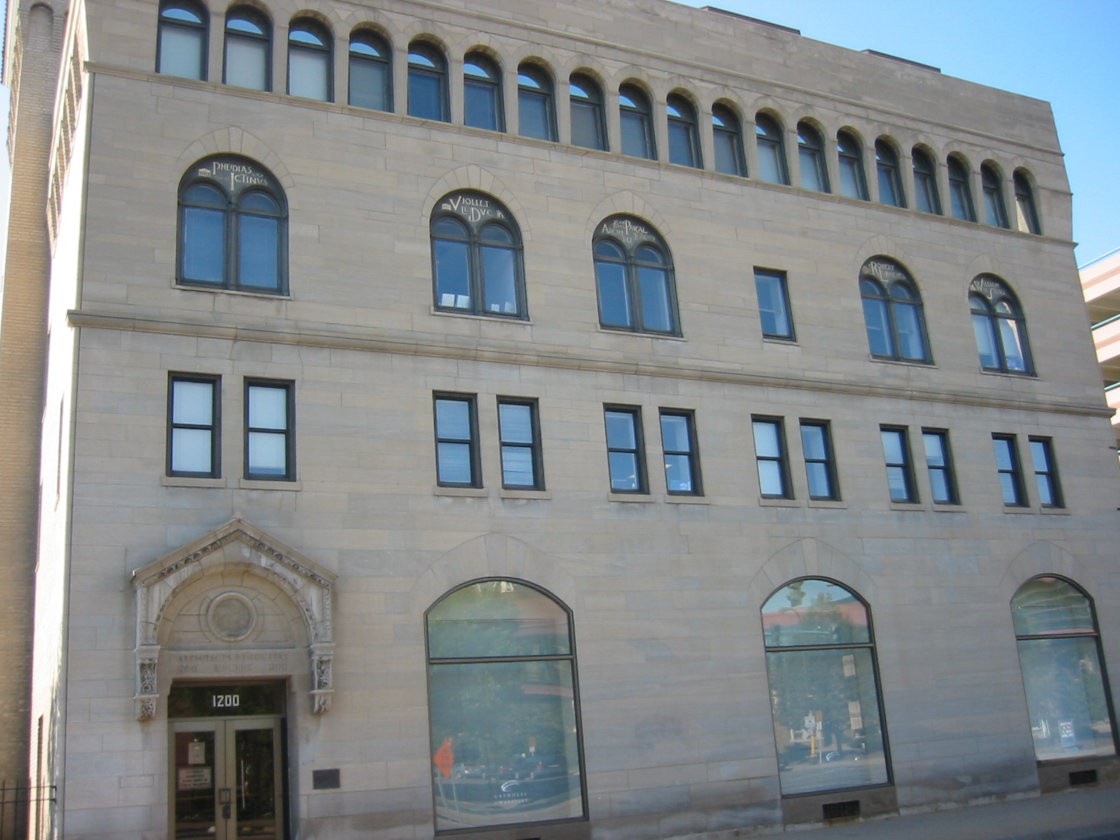 Architects and Engineers Building in downtown Minneapolis, Minnesota